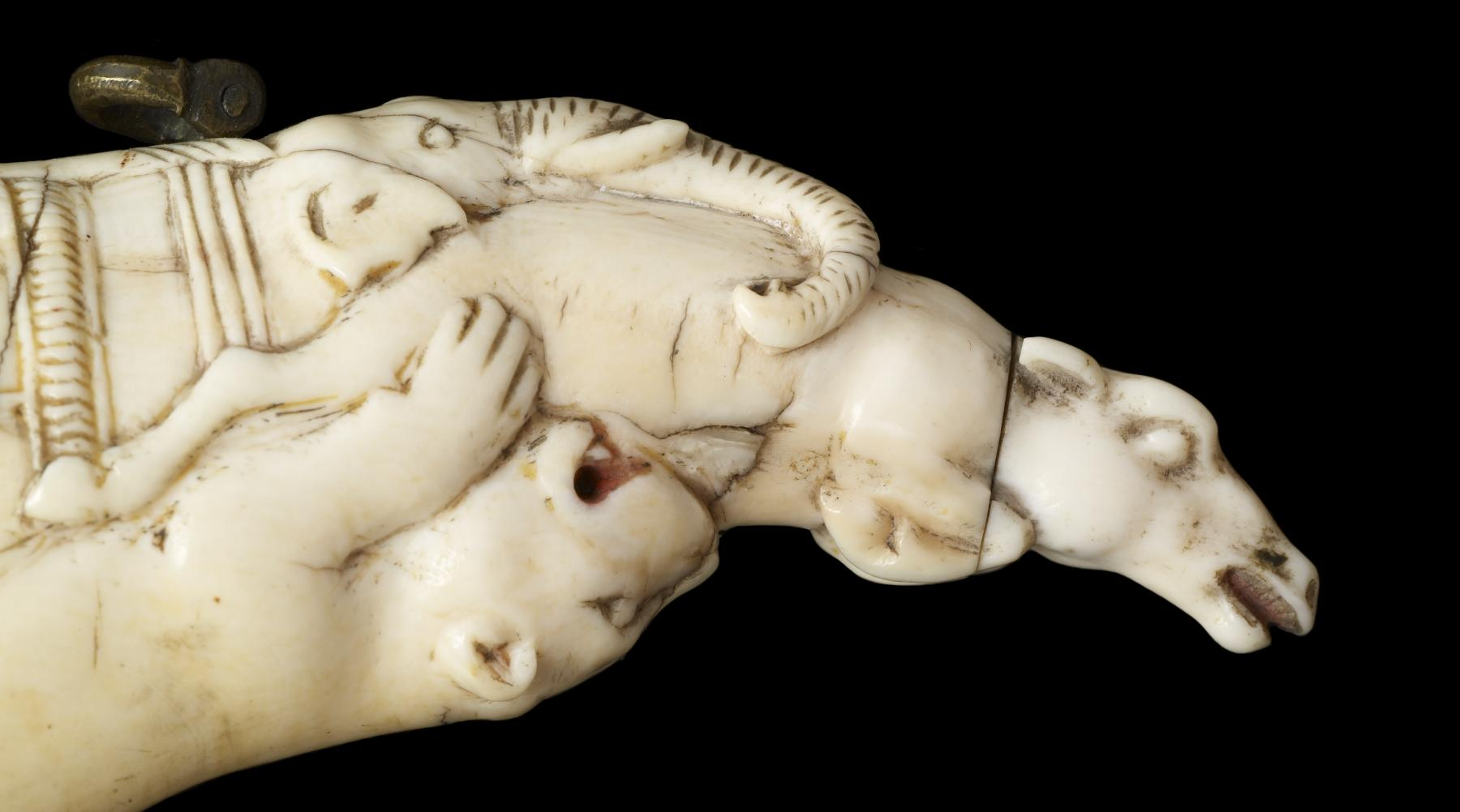 The powder flask (also known as a priming flask) was an essential firearm accessory and held the fine powder needed to make the gun fire. Gunmakers in India during the Mughal era (1526-1858) specialized in carving ivory powder flasks with animal figures. Often, as these two examples, the decoration consists of intertwined and composite creatures that seem to grow out of or attack one another. One such menagerie, on the right-hand flask, includes a cheetah or lion chasing an antelope in the center, and bucks, antelopes, lions, birds, a boar, elephant, and mongoose at the two ends. Many of these animals were regularly hunted (or used for hunts, as with the elephant), in Mughal India.